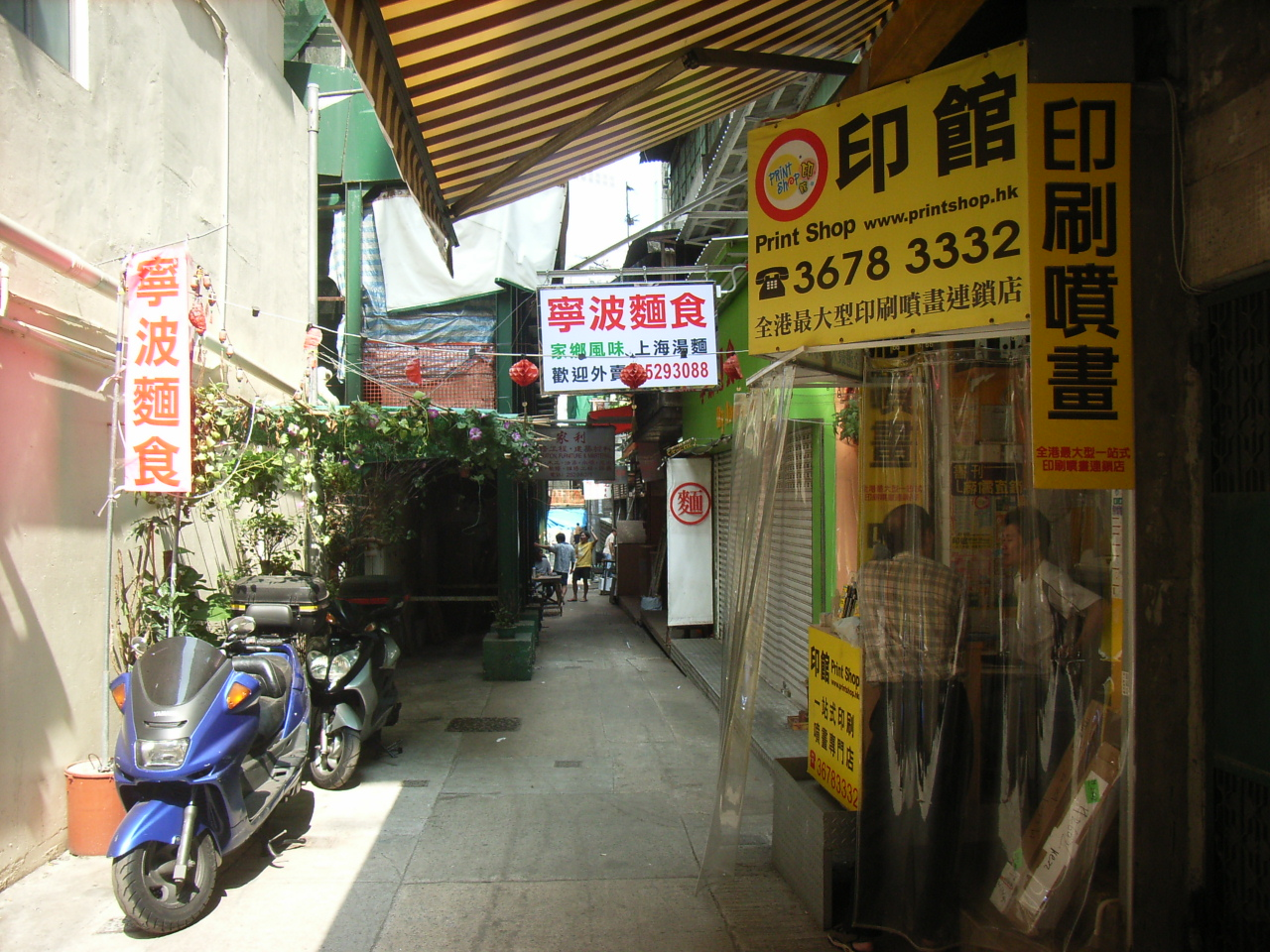 灣仔舊區街道 Wanchai old streets, Hong Kong. (A1 Wong East).